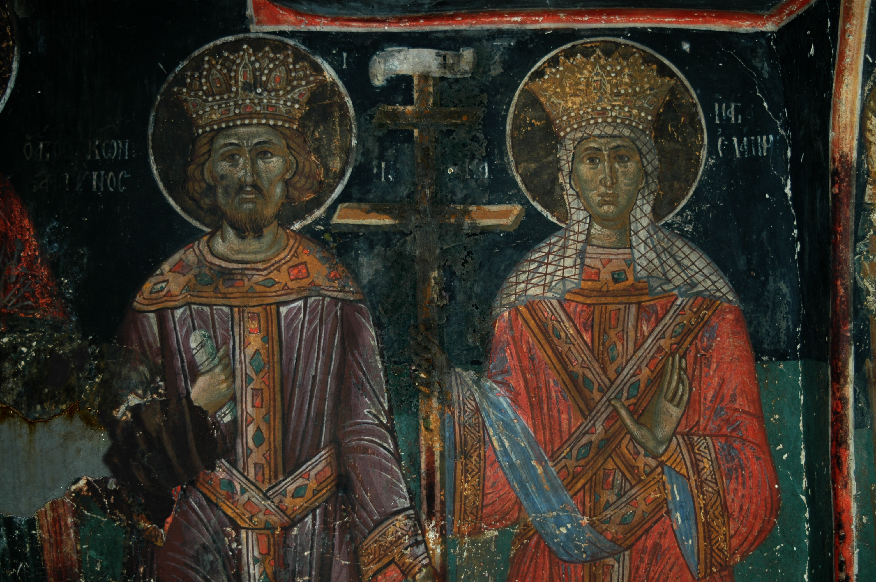 Emperor Constantine and saint Helen